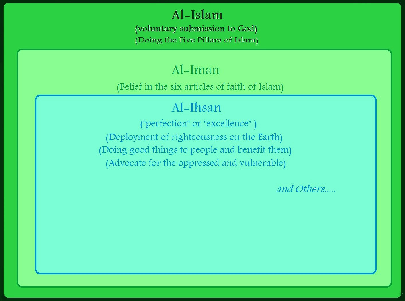 The three dimensions of Islam.